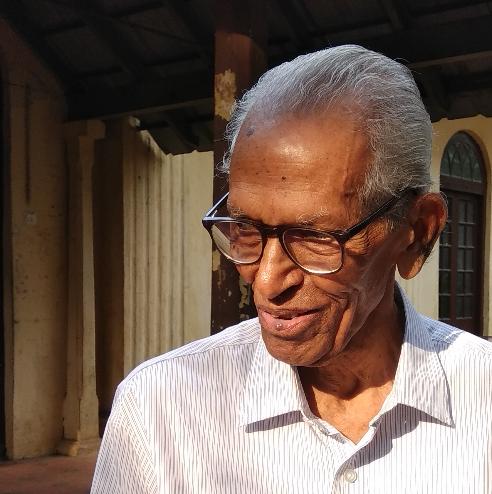 M K Sanoo (M. K. Sanu ) is a prominent Malayalam literary figure.